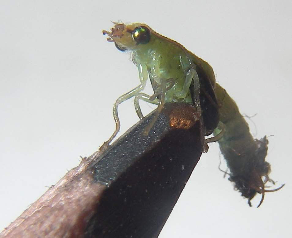 Pupa of green lacewing Chrysoperla carnea ready to molt to imago (i.e., pharate imago) escaped from its cocoon and crawled on a top of (collected in Russia, Belgorod Province, near Borisovka)